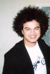 Photo of Guy Sebastian with a fan taken backstage at World Idol in December 2003. Image has been cropped and edited to remove other person.